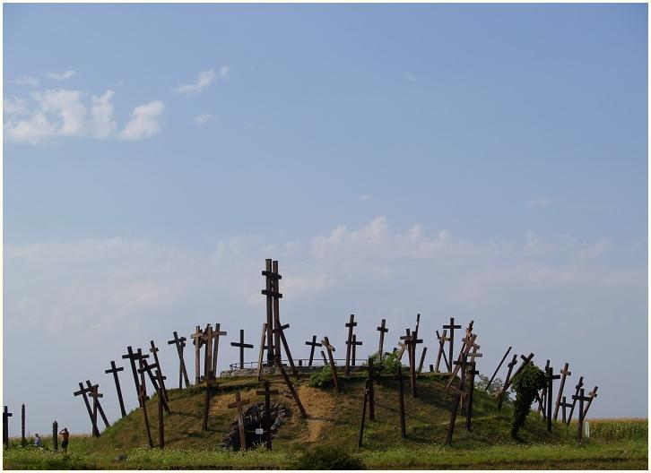 Burial site at Mohi.